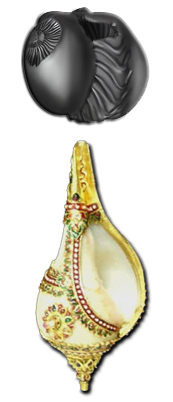 Sacred Hindu stone (ammonite)